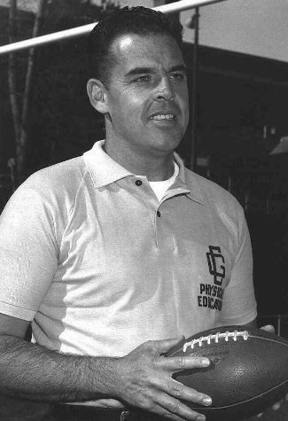 "Commander Otto Graham, the new U.S. Coast Guard Academy Athletic Director." 1959.